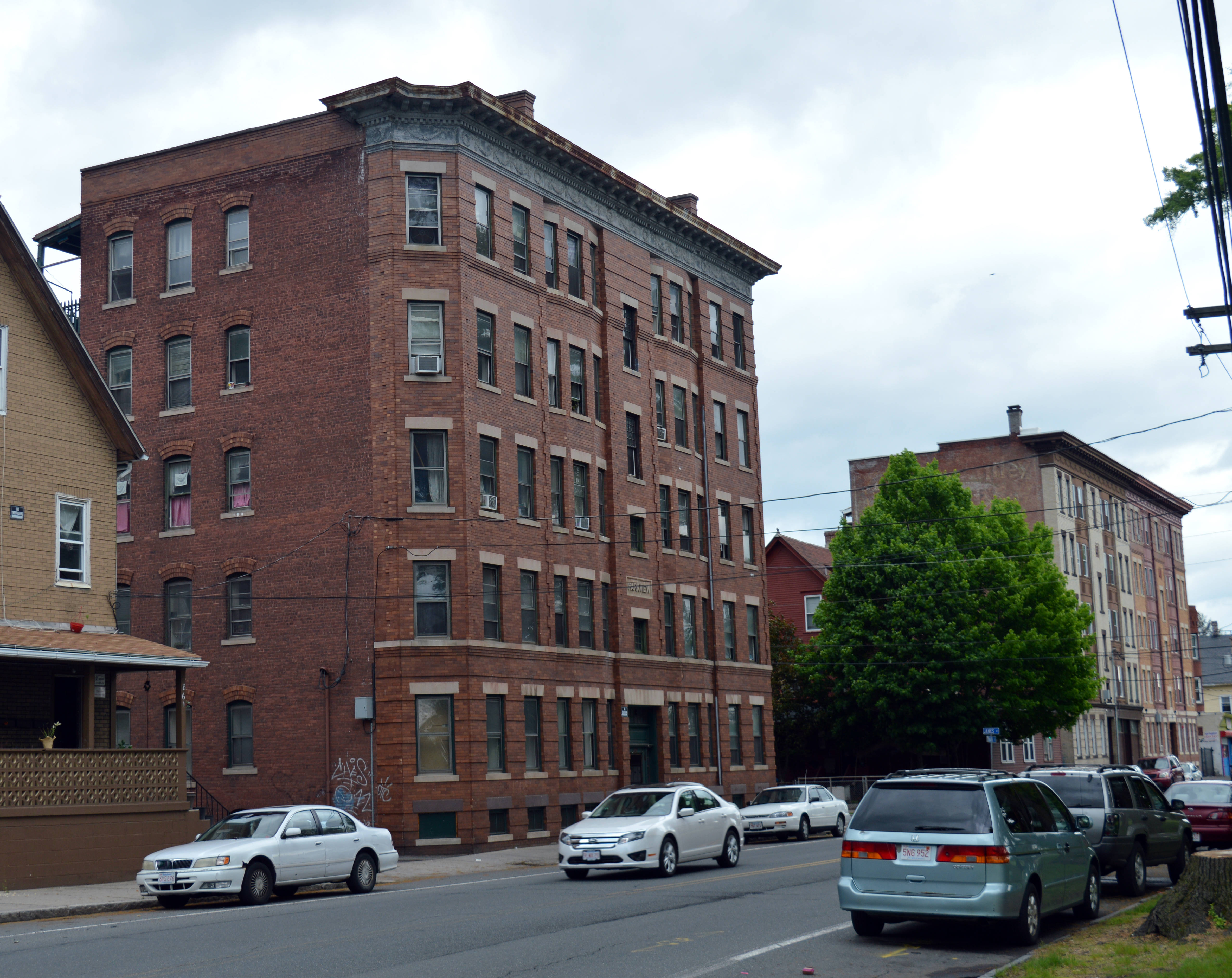 The Parkview, designed circa 1910 date QS:P,+1910-00-00T00:00:00Z/9,P1480,Q5727902 by Oscar Beauchemin, along with the Guenther and Paquette Blocks, also by Beauchemin, it is a prominent example of neoclassical architecture on Main St. in Holyoke's Springdale neighborhood.